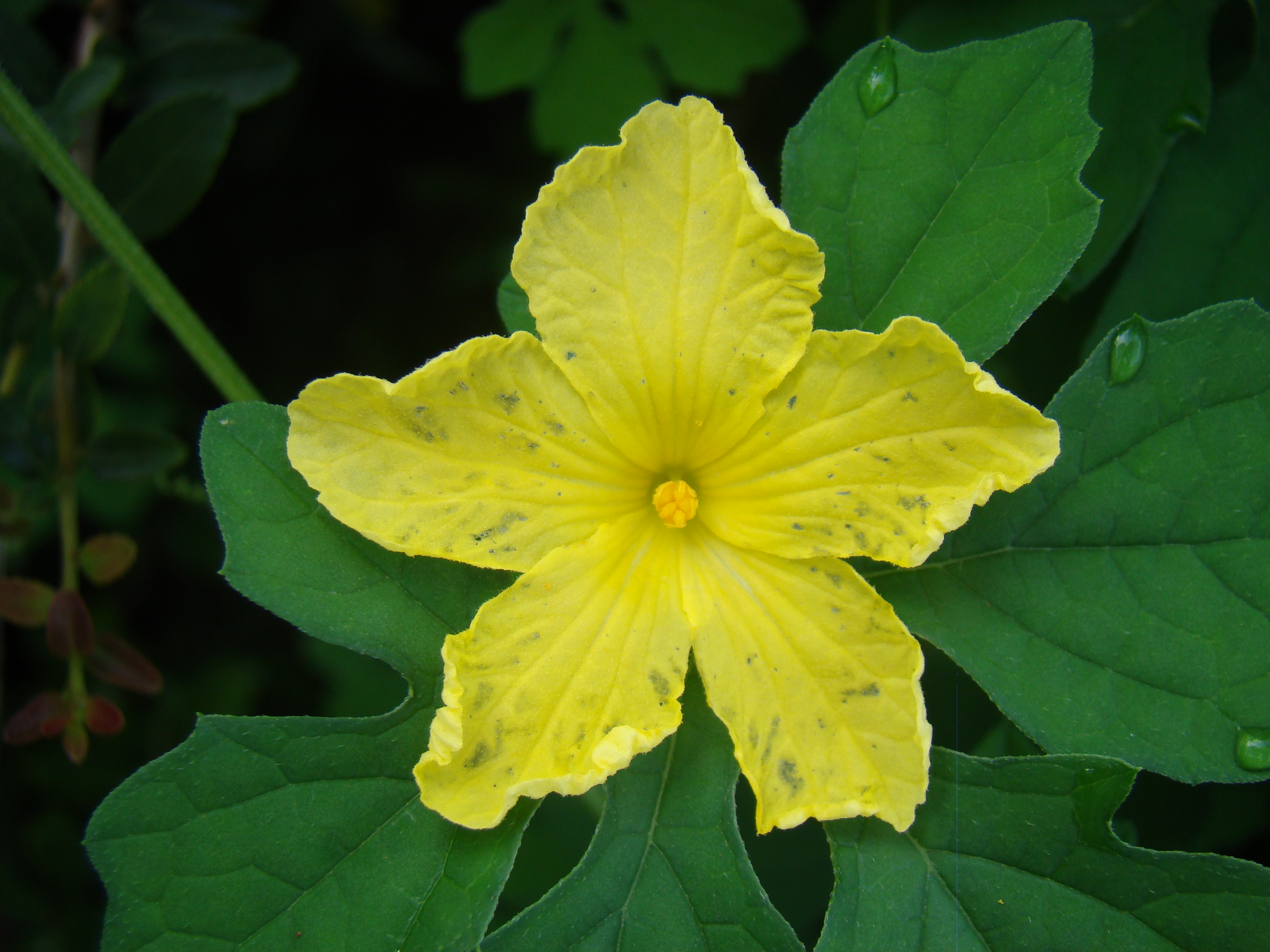 Balsam Pear (Momordica balsamina / Cucurbitaceae) flower on a vine climbing over shrubs in the Merritt Island National Wildlife Refuge, Merritt Island, Florida.